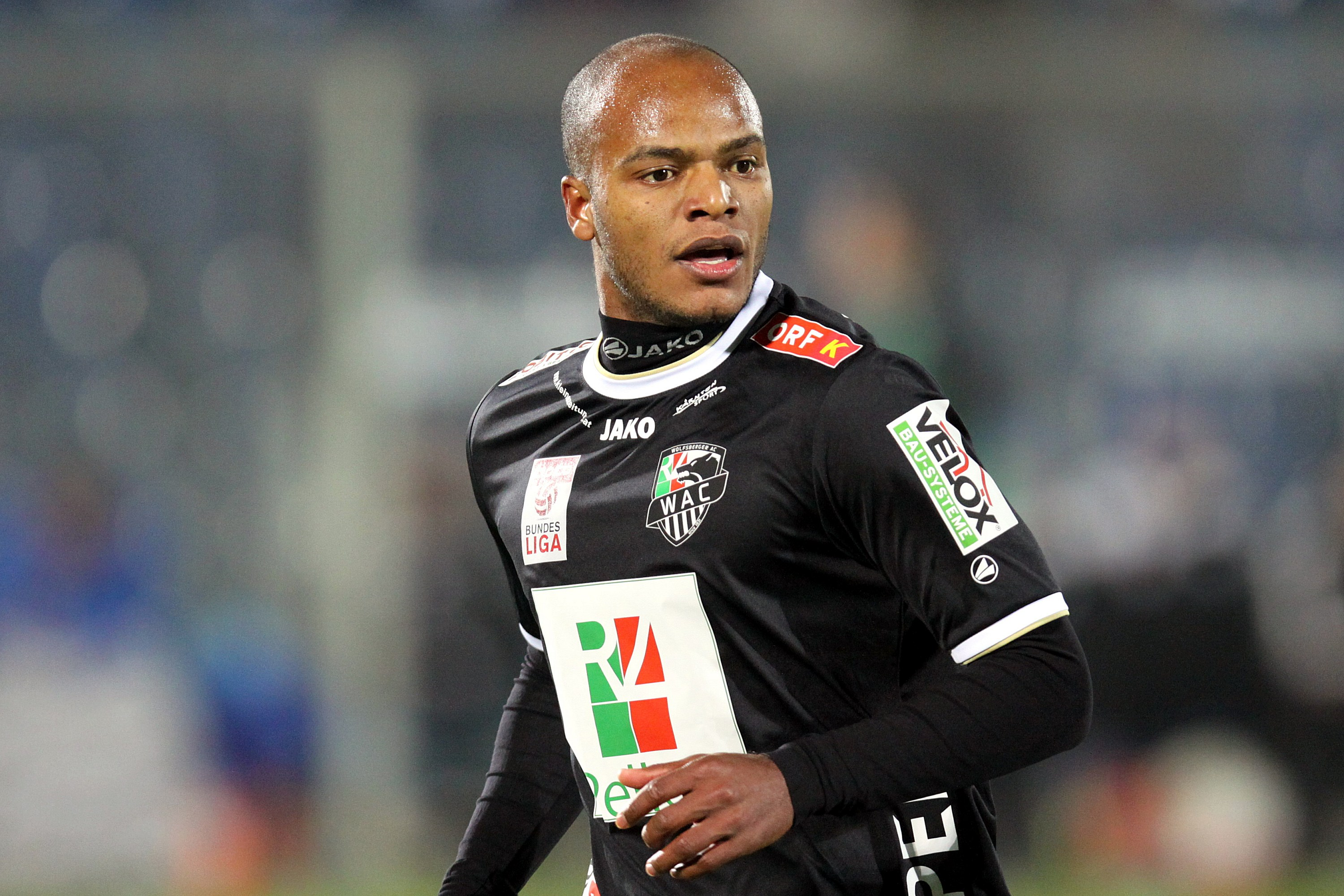 2014–15 Austrian Football Bundesliga: SC Wiener Neustadt vs. Wolfsberger AC (2:0 / 0:0) at 2014-11-22 in the Stadion Wiener Neustadt. – The photo shows en: (SC Wiener Neustadt/Wolfsberger AC). The making of this work was supported by Wikimedia Austria. For other files made with the support of Wikimedia Austria, please see the category Supported by Wikimedia Österreich.